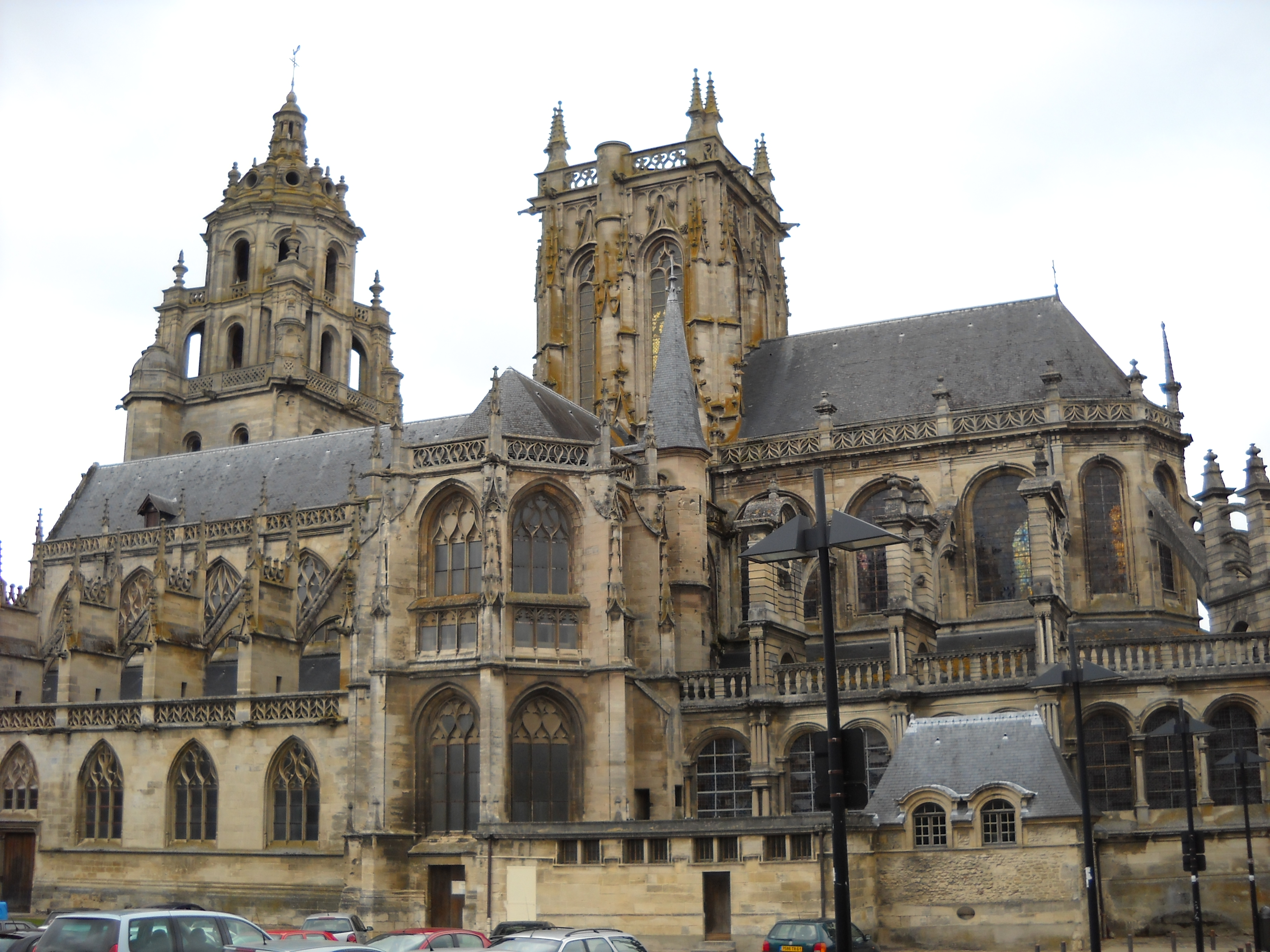 The 14-17th Saint Germain Church, in Argentan, Orne, France.